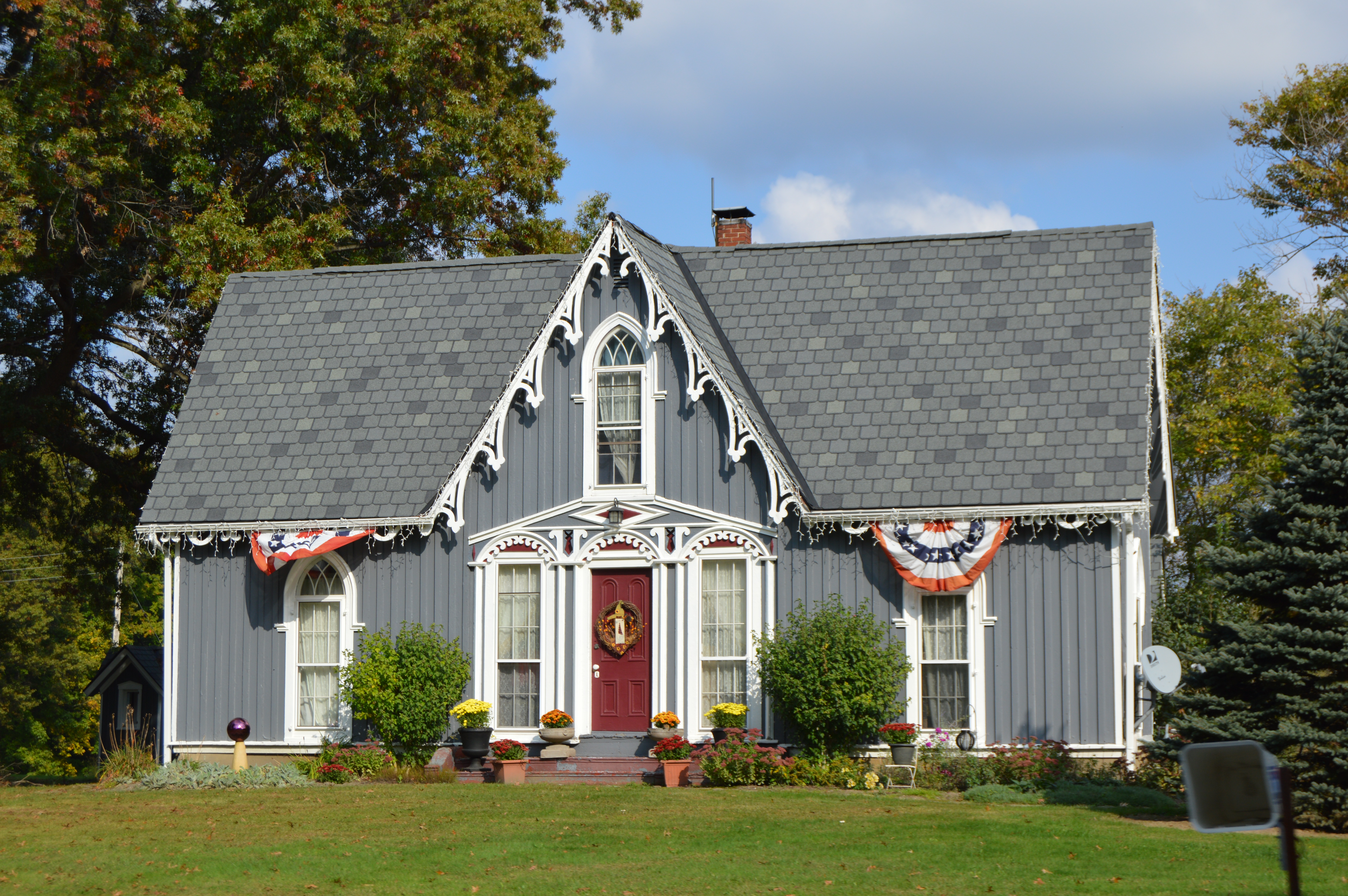 Front of the John Wesley Mason Gothic Cottage, located on the eastern side of State Route 534 north of the Ohio Turnpike in Braceville Township, Trumbull County, Ohio, United States. Built in 1860, it is listed on the National Register of Historic Places.